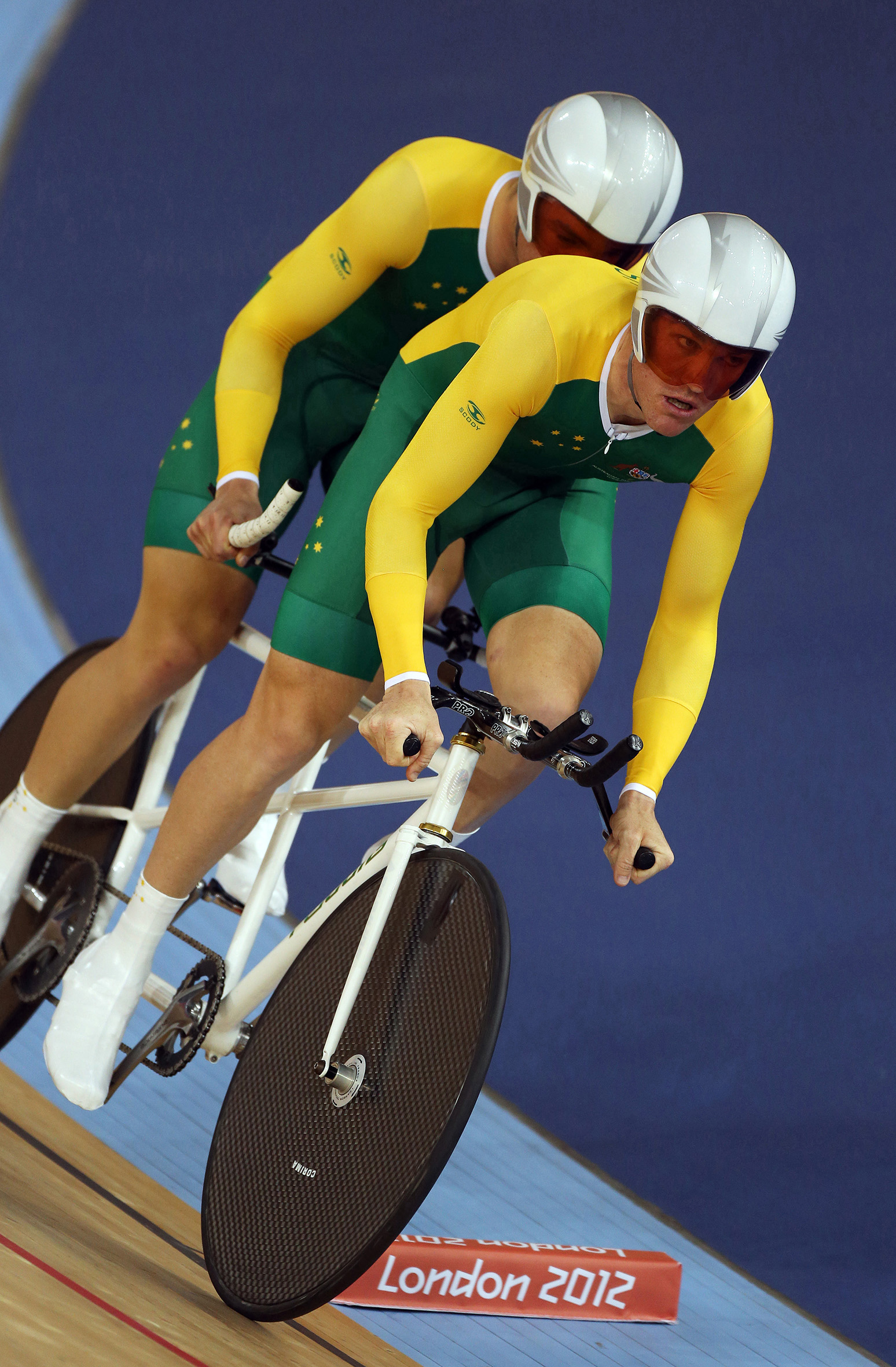 Photograph of Australian Paralympic team members Bryce Lindores & Sean Finning at the 2012 Summer Paralympic Games in London